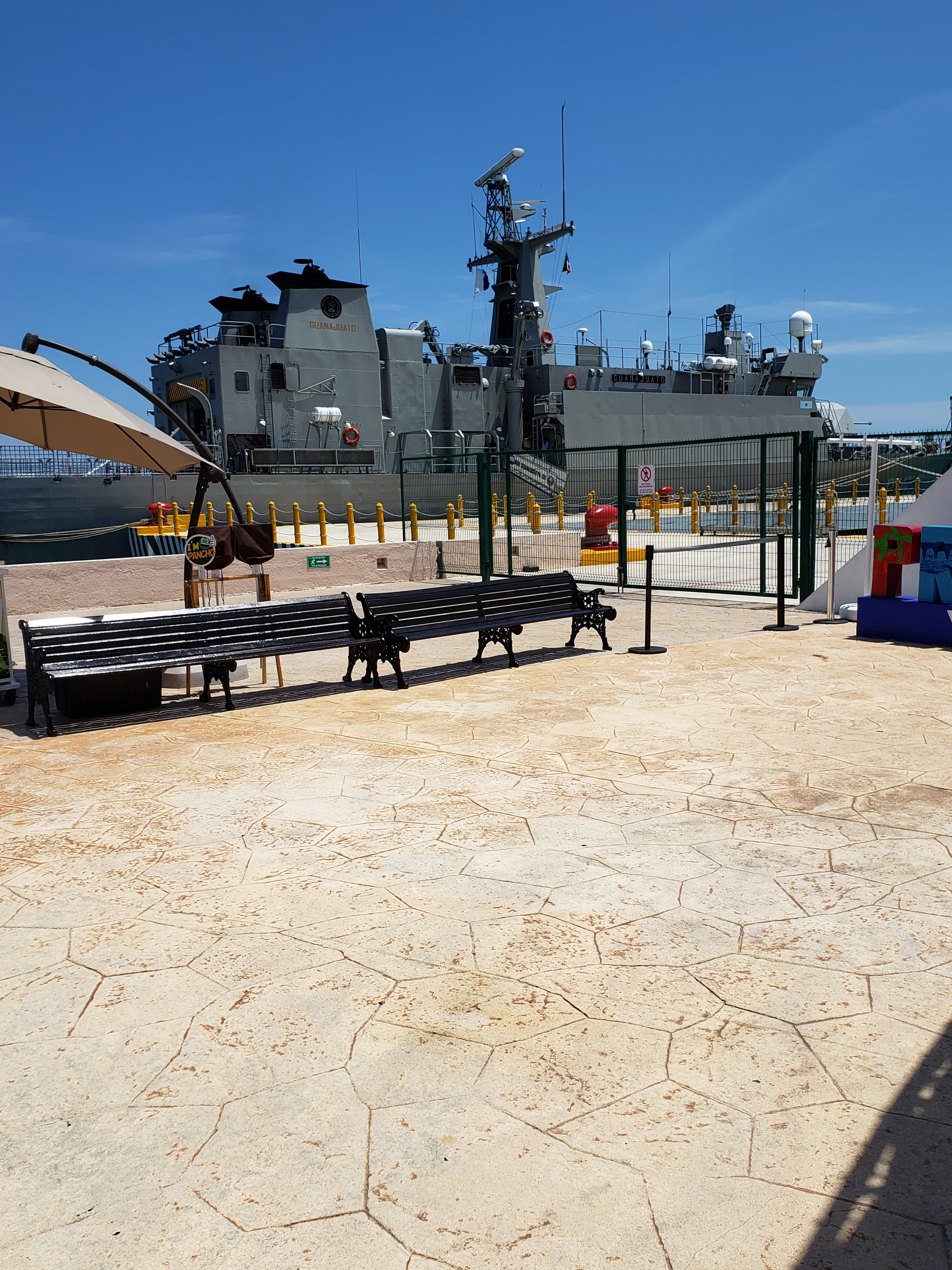 Docked in progresso